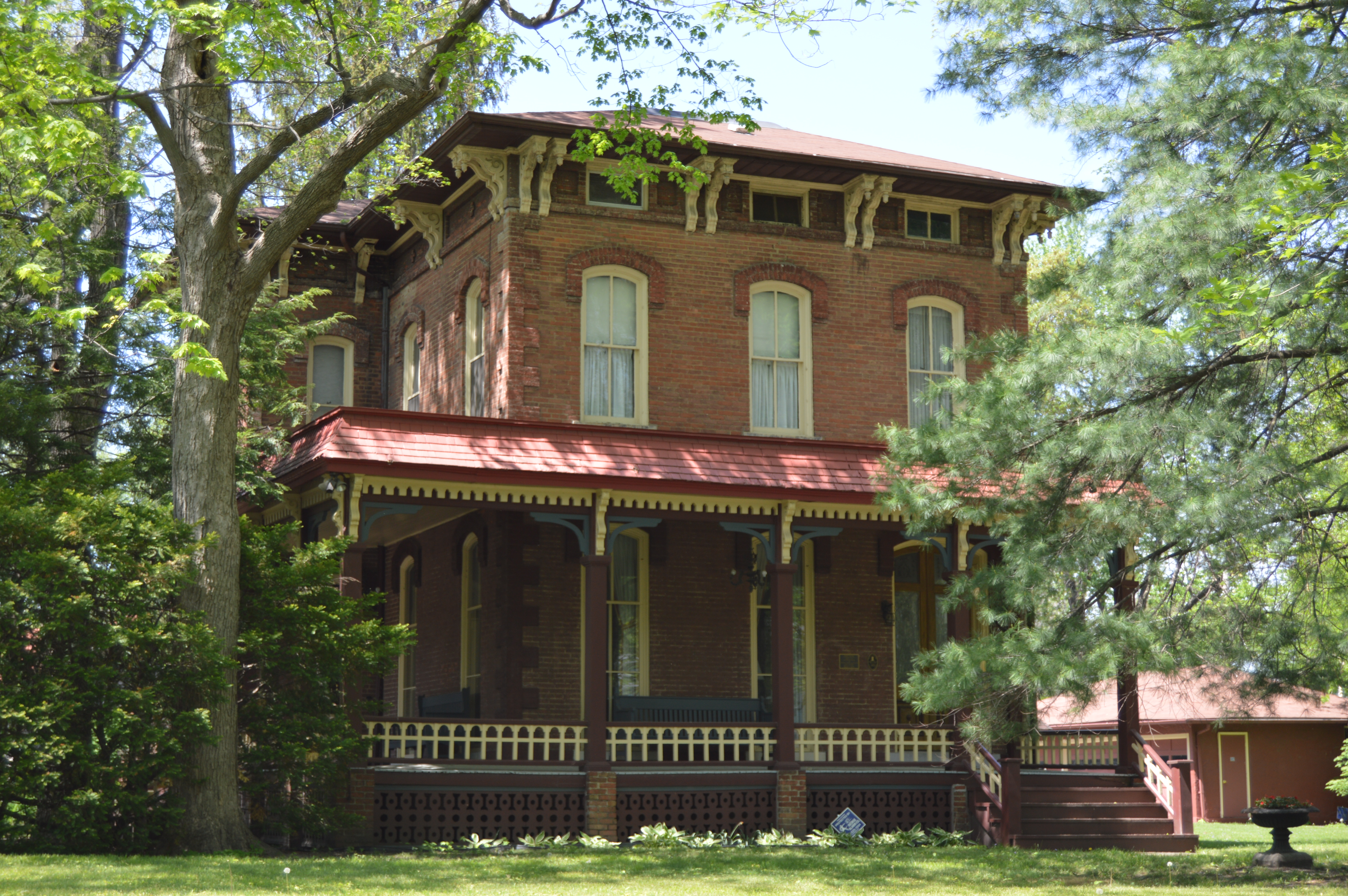 Front of the Hoblit House, located at 505 N. College Avenue in Lincoln, Illinois, United States. Built in 1874, it is listed on the National Register of Historic Places.